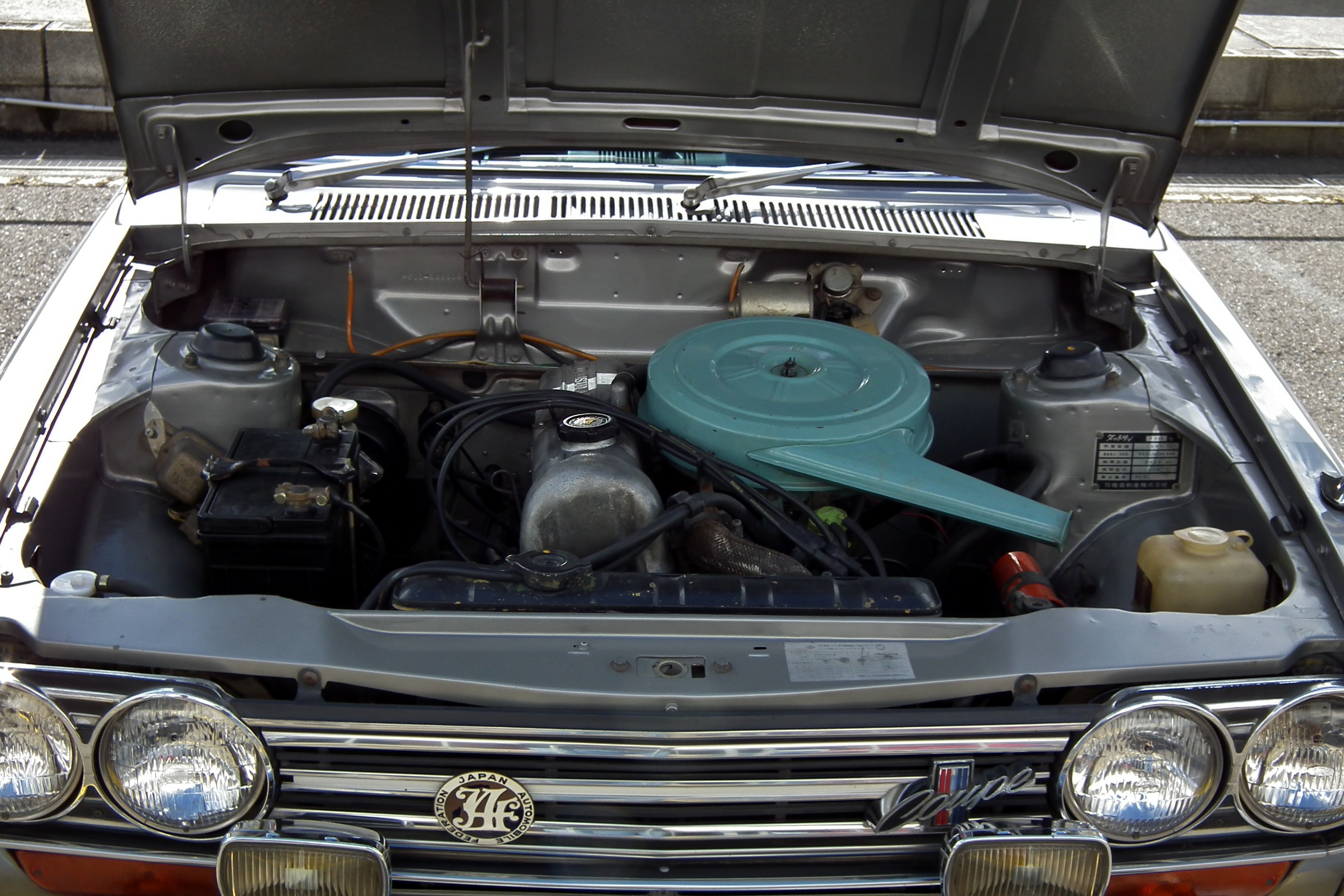 1970 Datsun Bluebird 1600 coupe engine. Taken at Shannon's Eastern Creek Classic 2011, held at Eastern Creek Raceway Sydney.